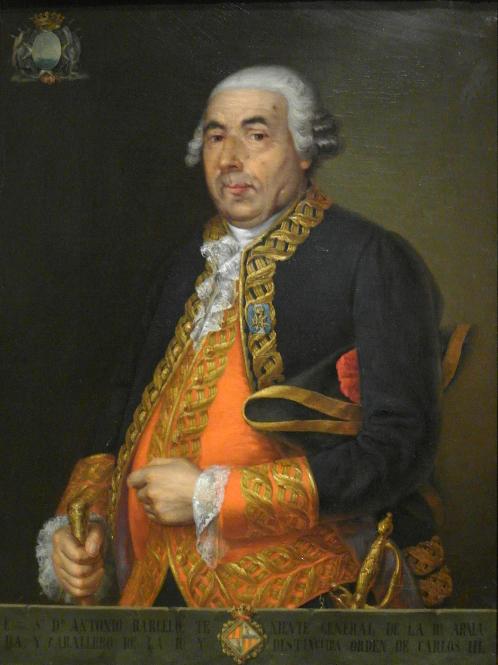 Depicted person: Antonio Barceló (1717–1797).